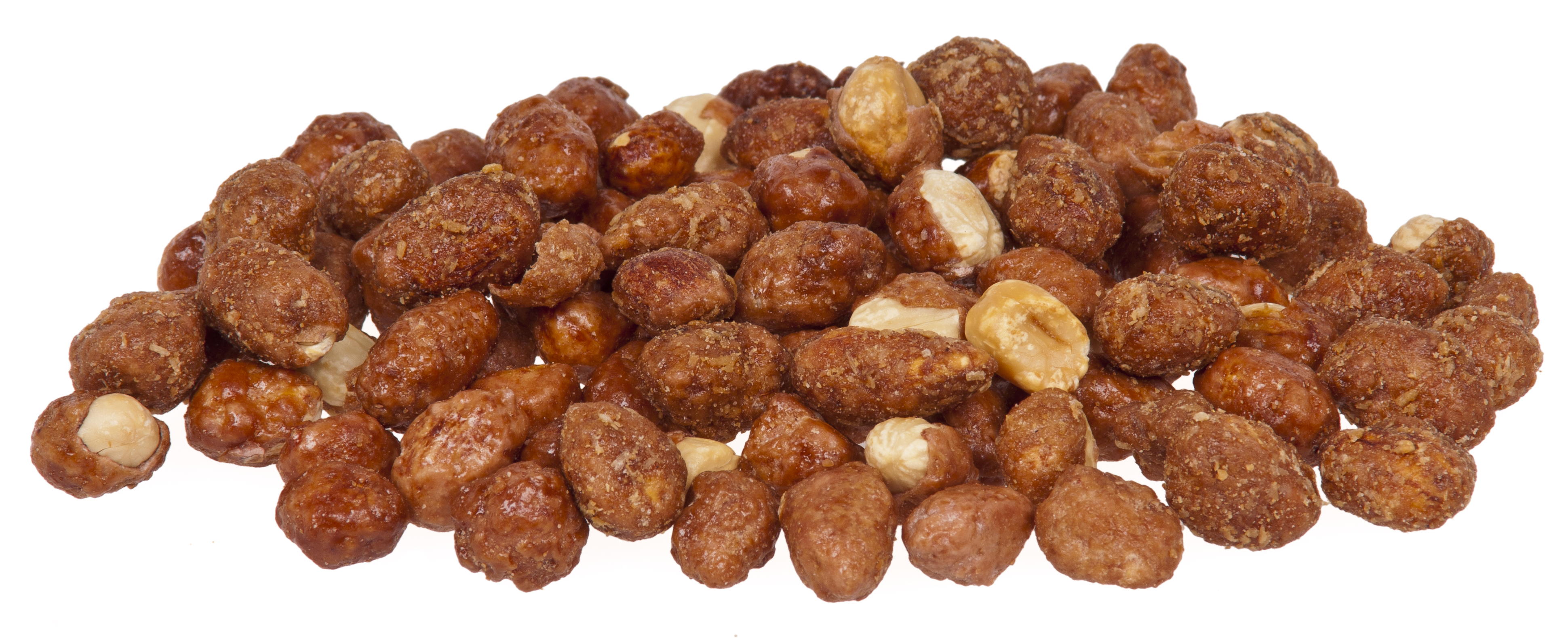 P. Nuttles Butter Toffee Peanuts, a mix of regular and coconut flavors.